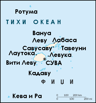 Map of Fiji in Macedonian.